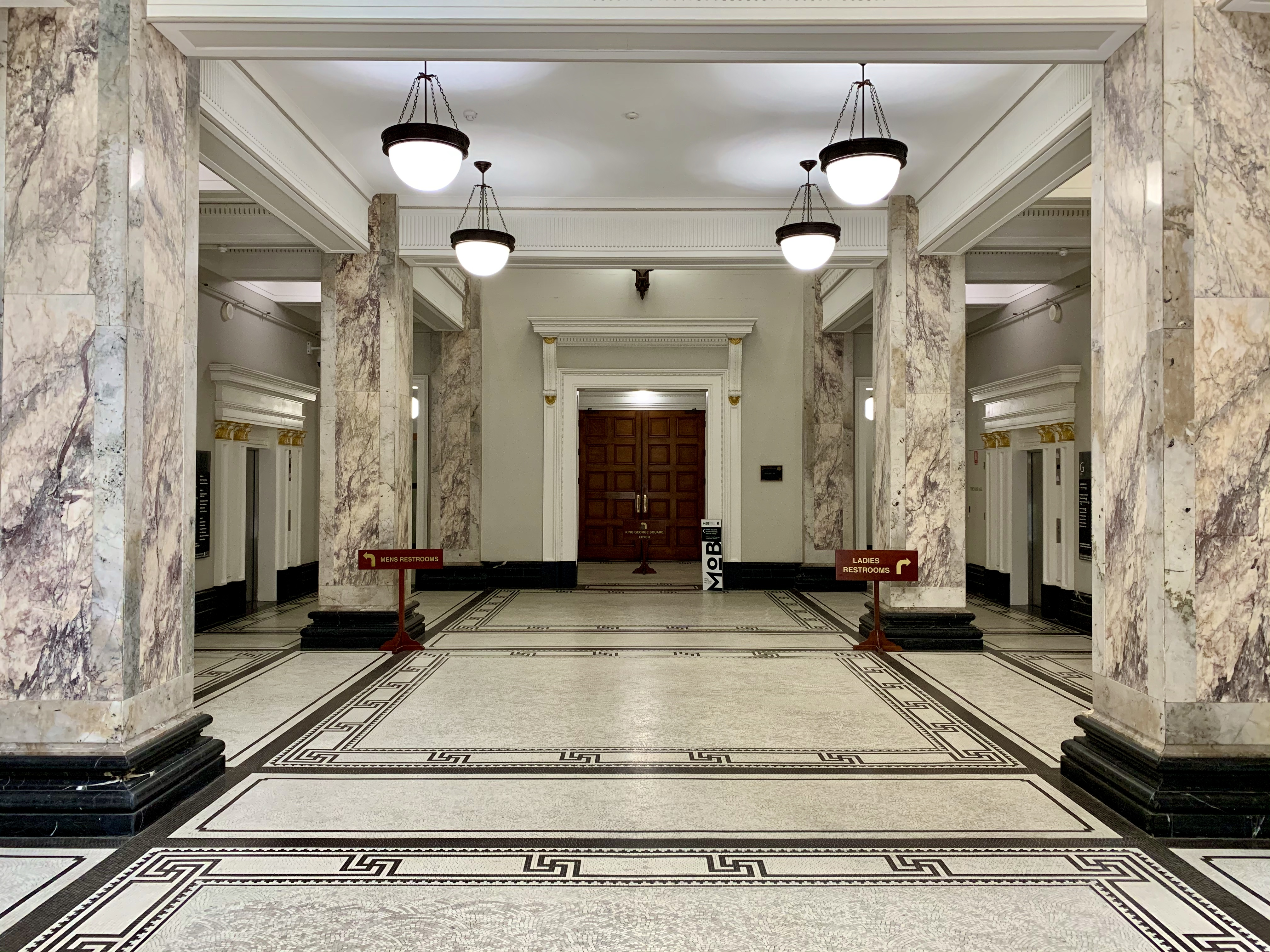 Brisbane City Hall Ann Street entrance hall, Australia